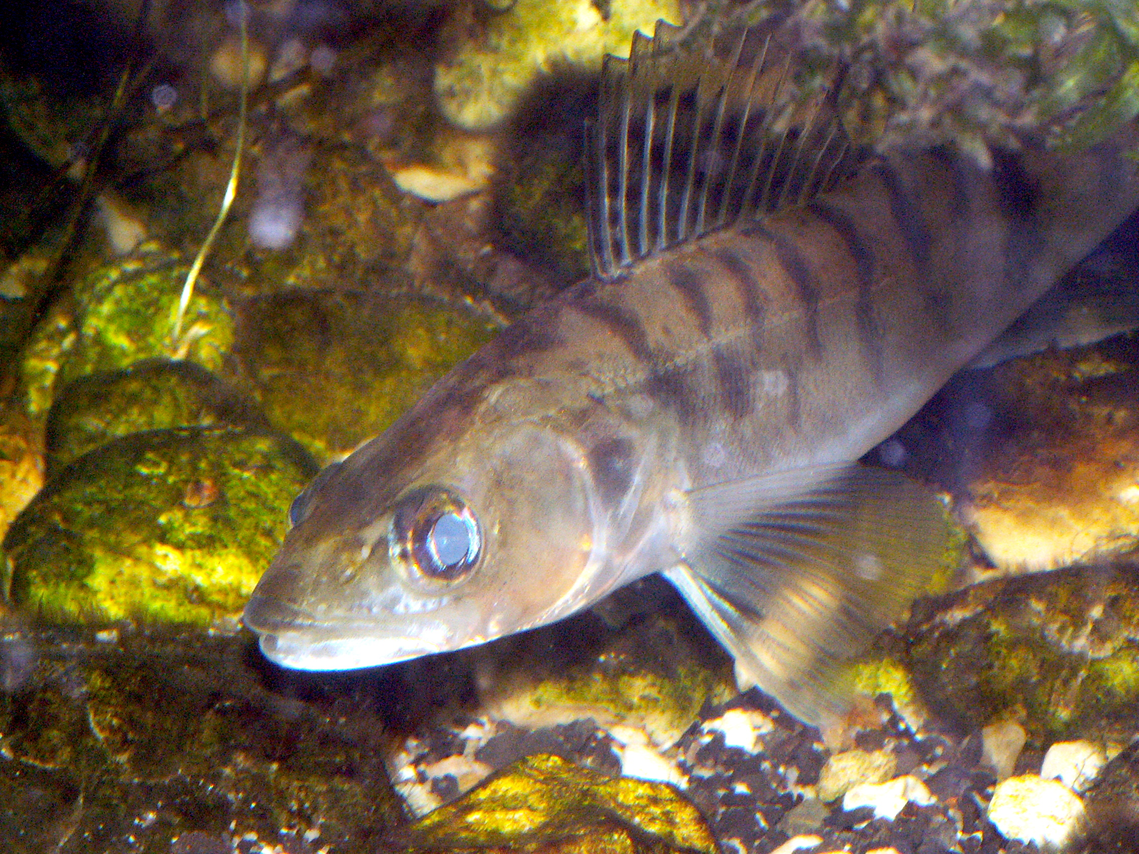 Sander lucioperca Lucioperca sandra after first summer, aquarium, the Netherlands